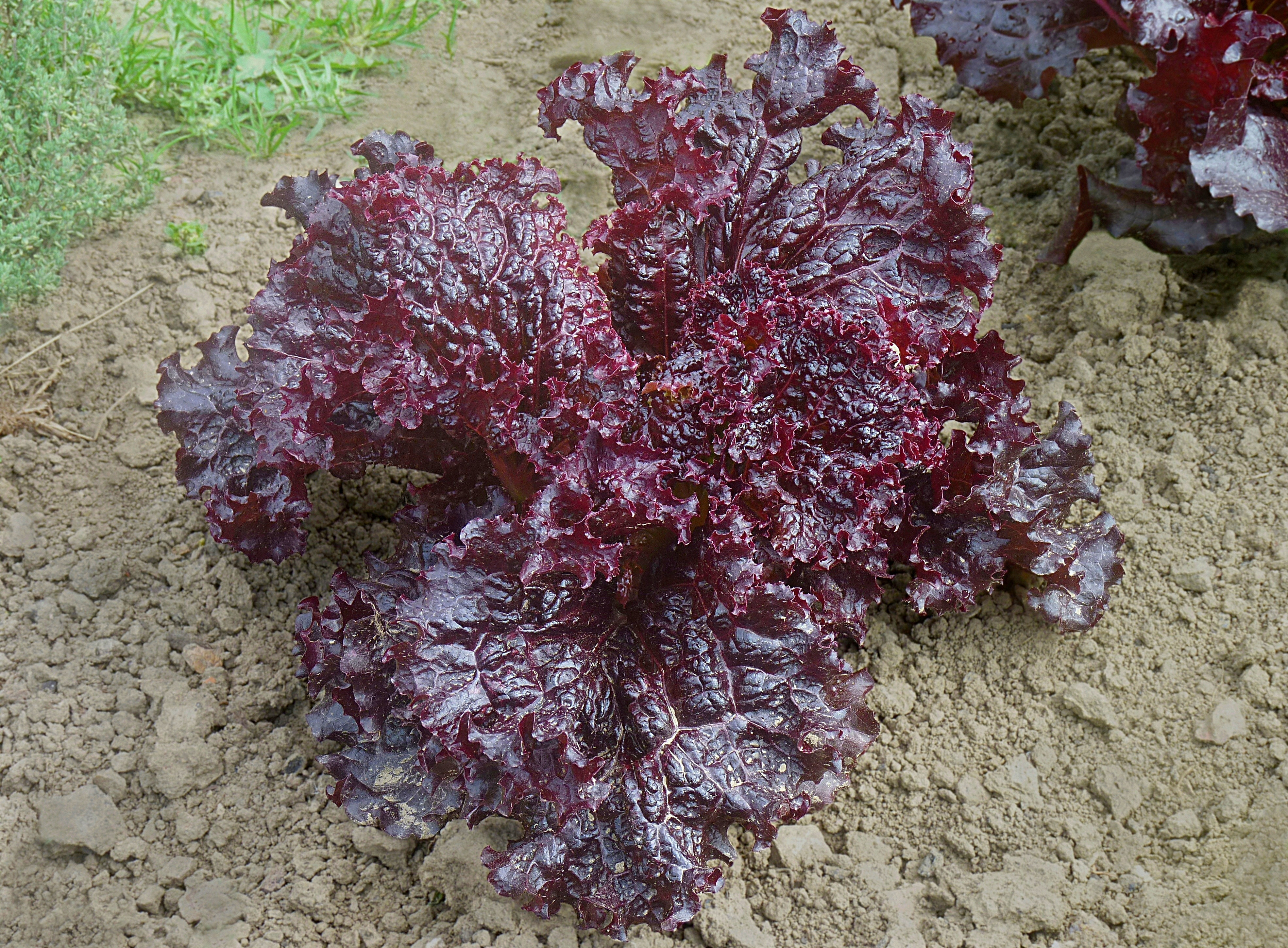 Red leaf lettuce, in a allotment in Tourcoing (Nord), France.